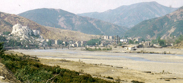 Rubik, Albania. To the left is the rock with the old church, to the right the old cupper factory